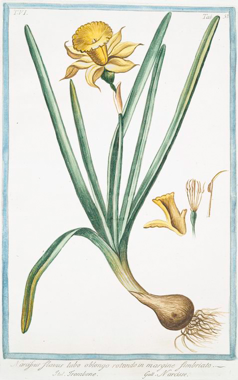 Narcissus flavus, from Hortus Romanus plantaru (1772-1793) by Georgio Bonelli